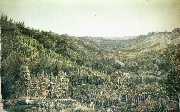 Portage La Loche between Lac La Loche and the Clearwater River. watercolor